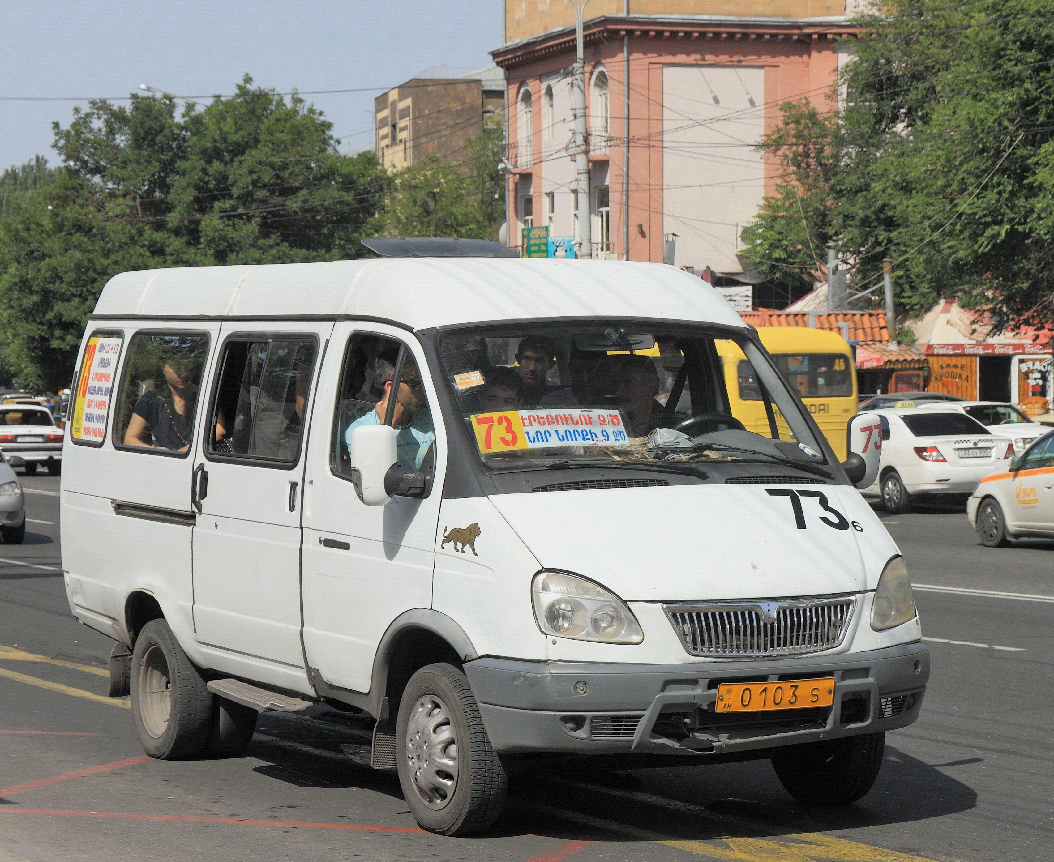 Marshrutka in the center of the capital. Yerevan, Armenia.